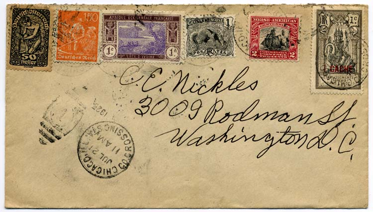 A 1925 philatelic cover with an illegitimate mixed franking.